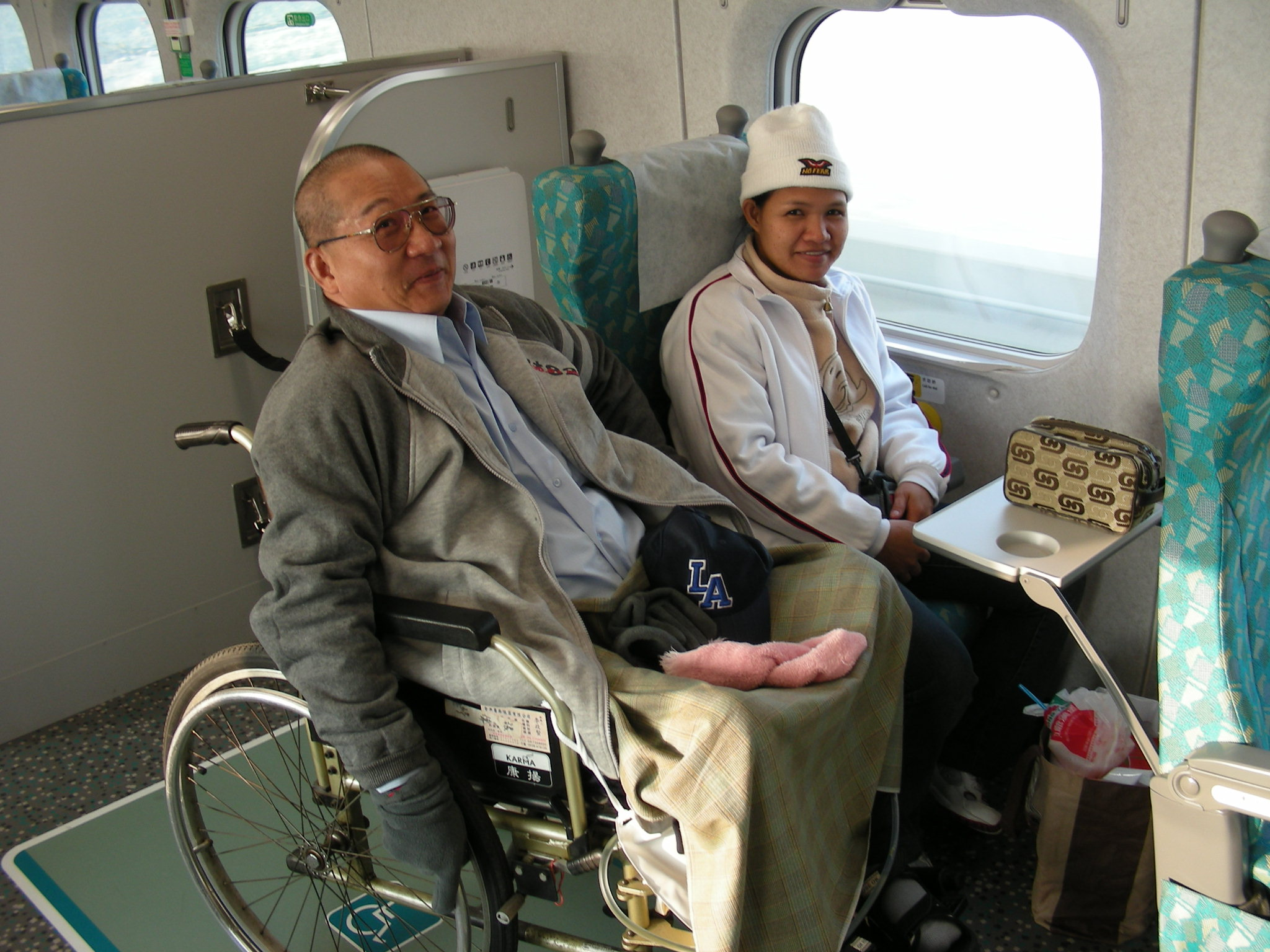 Taiwan HSR (High Speed Rail) Train, Disabled-Friendly Seating.